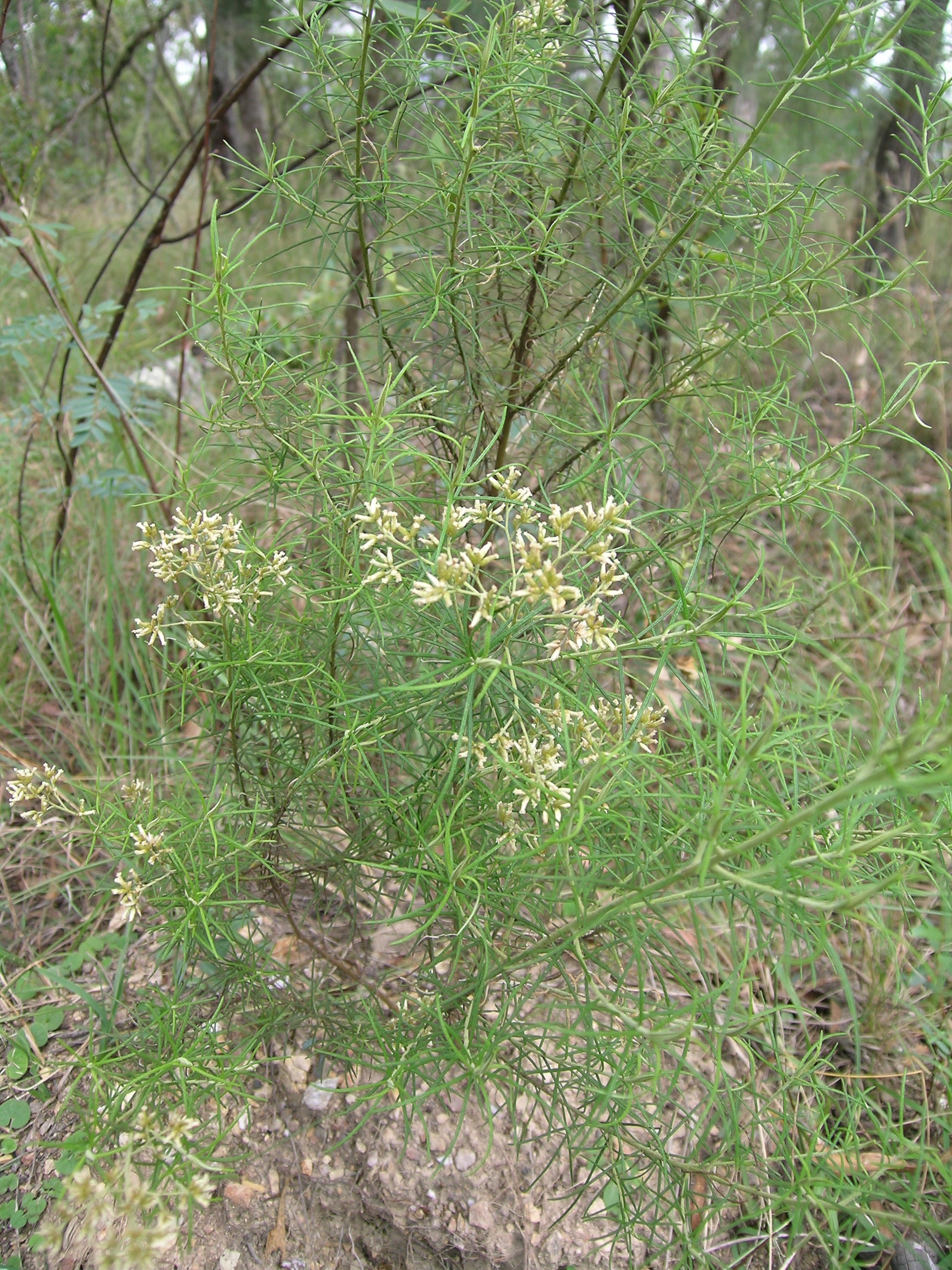 Cough bush (Cassinia laevis), Walcha, NSW